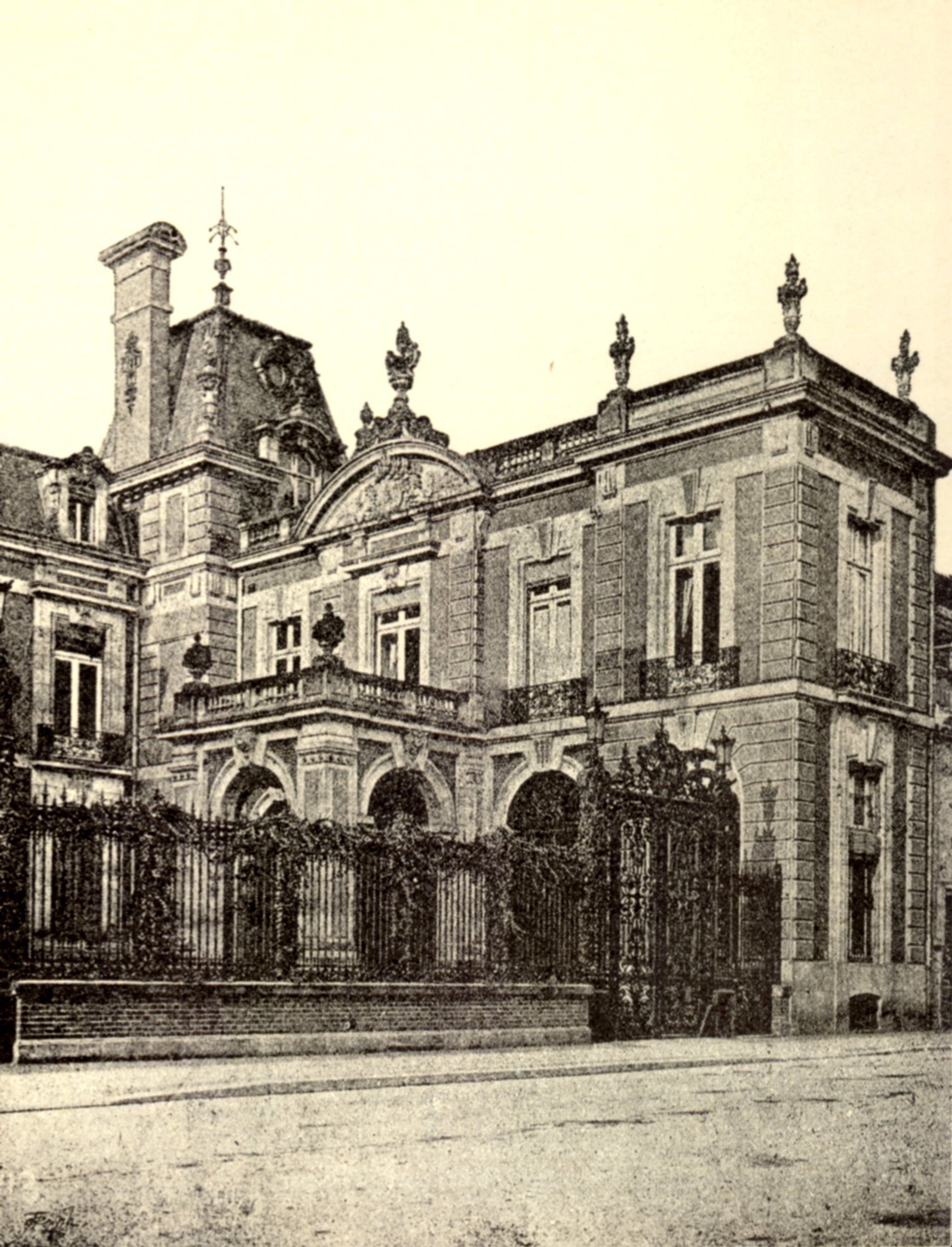 Berlin - Palais Pleß at Wilhelmstraße 78, view